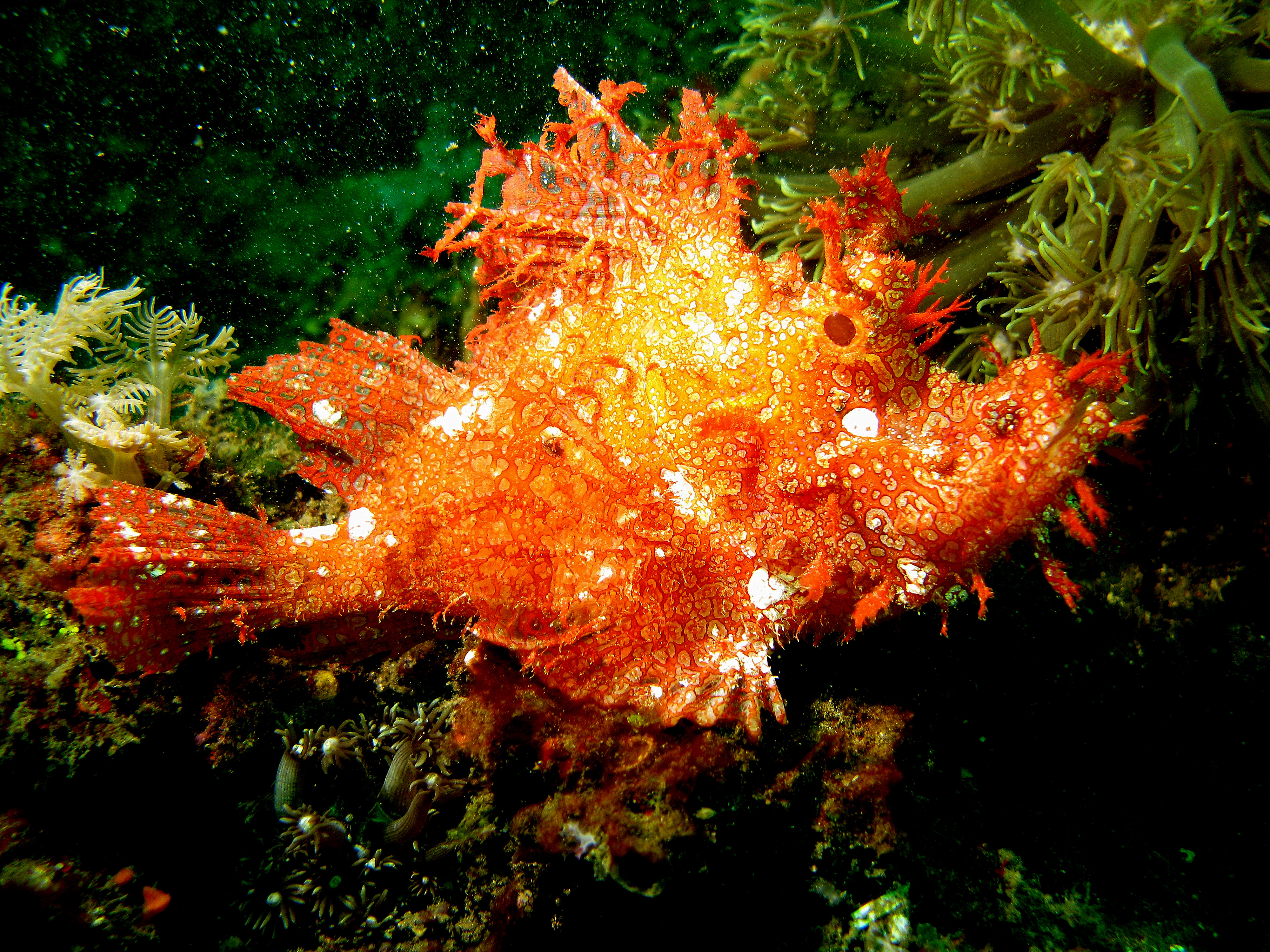 Rhinopias frondosa - Lacy Scorpionfish, Weedy Scorpionfish